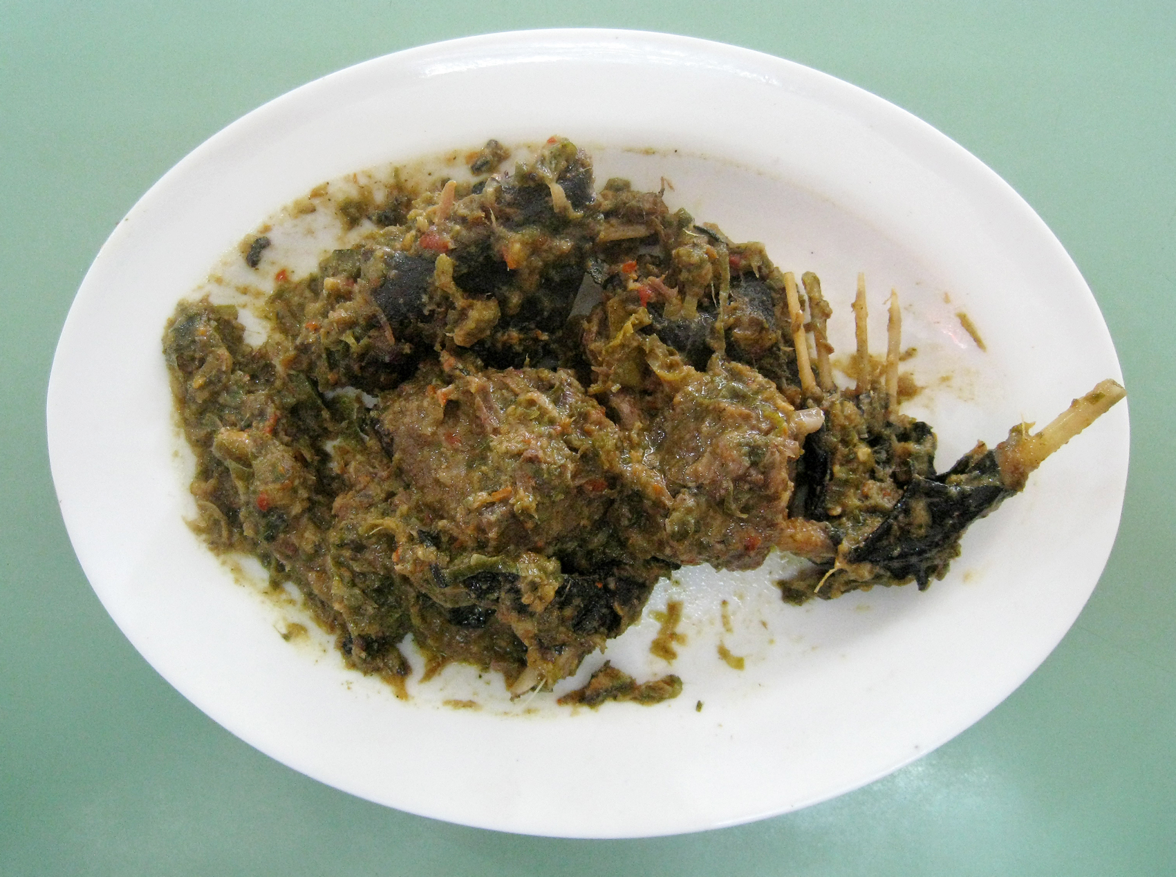 Paniki (Fruit Bat) meat cooked in spicy Rica green chilli pepper. An exotic Manado (Minahasan) dish. Manado, North Sulawesi, Indonesia.